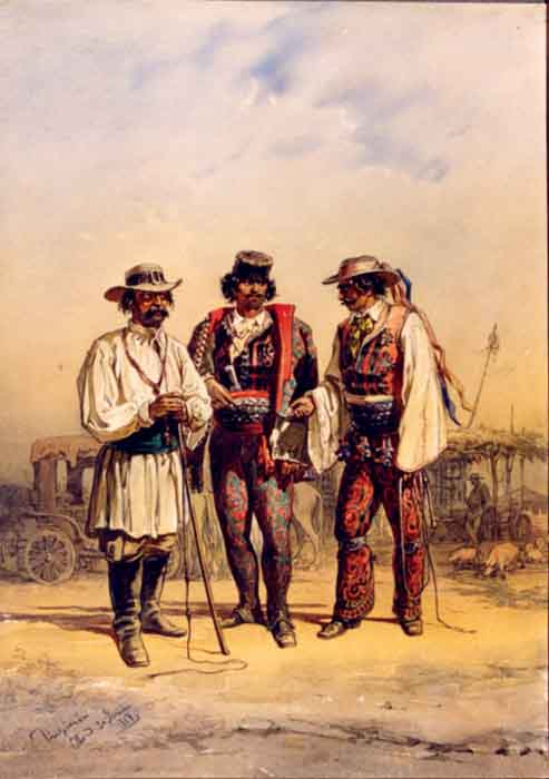 Coachmen of Obor, an aquarelle by Amedeo Preziosi, 1868